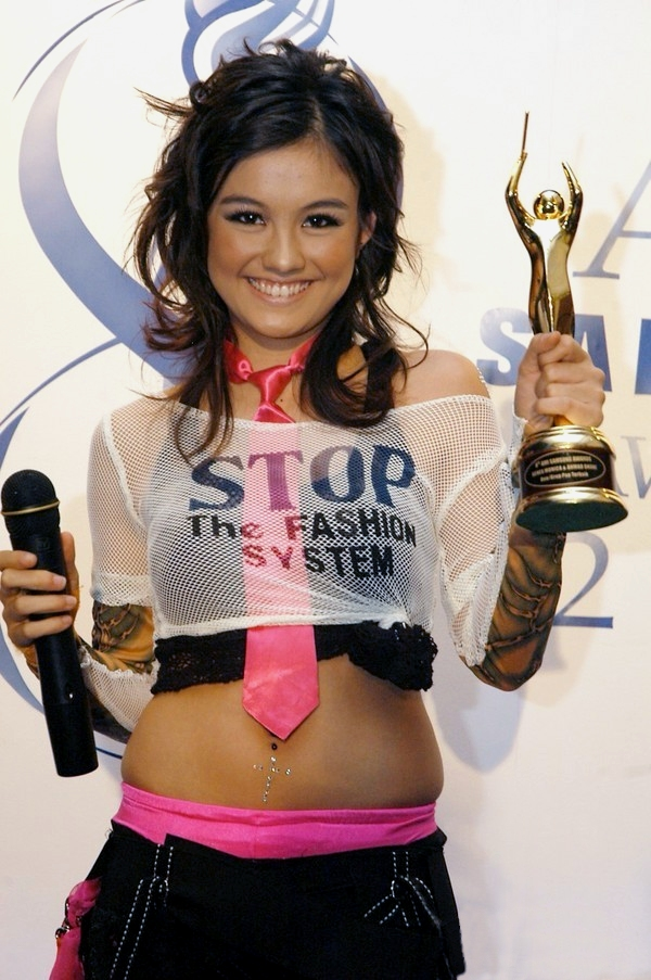 Agnes Monica receiving her first AMI Award in 2004